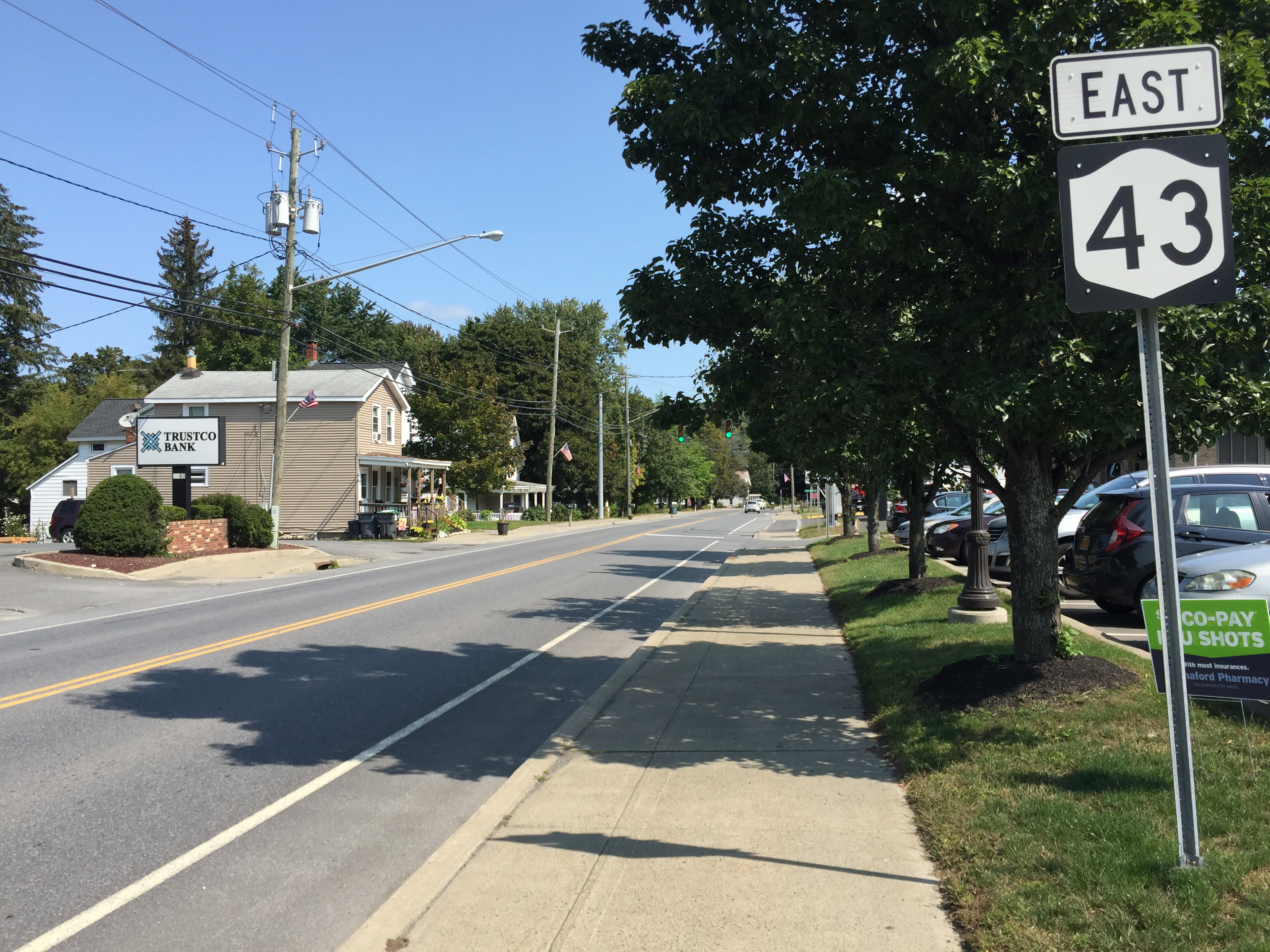 View east along New York State Route 43 (West Sand Lake Road) at New York State Route 150 in the West Sand Lake section of Sand Lake, Rensselaer County, New York